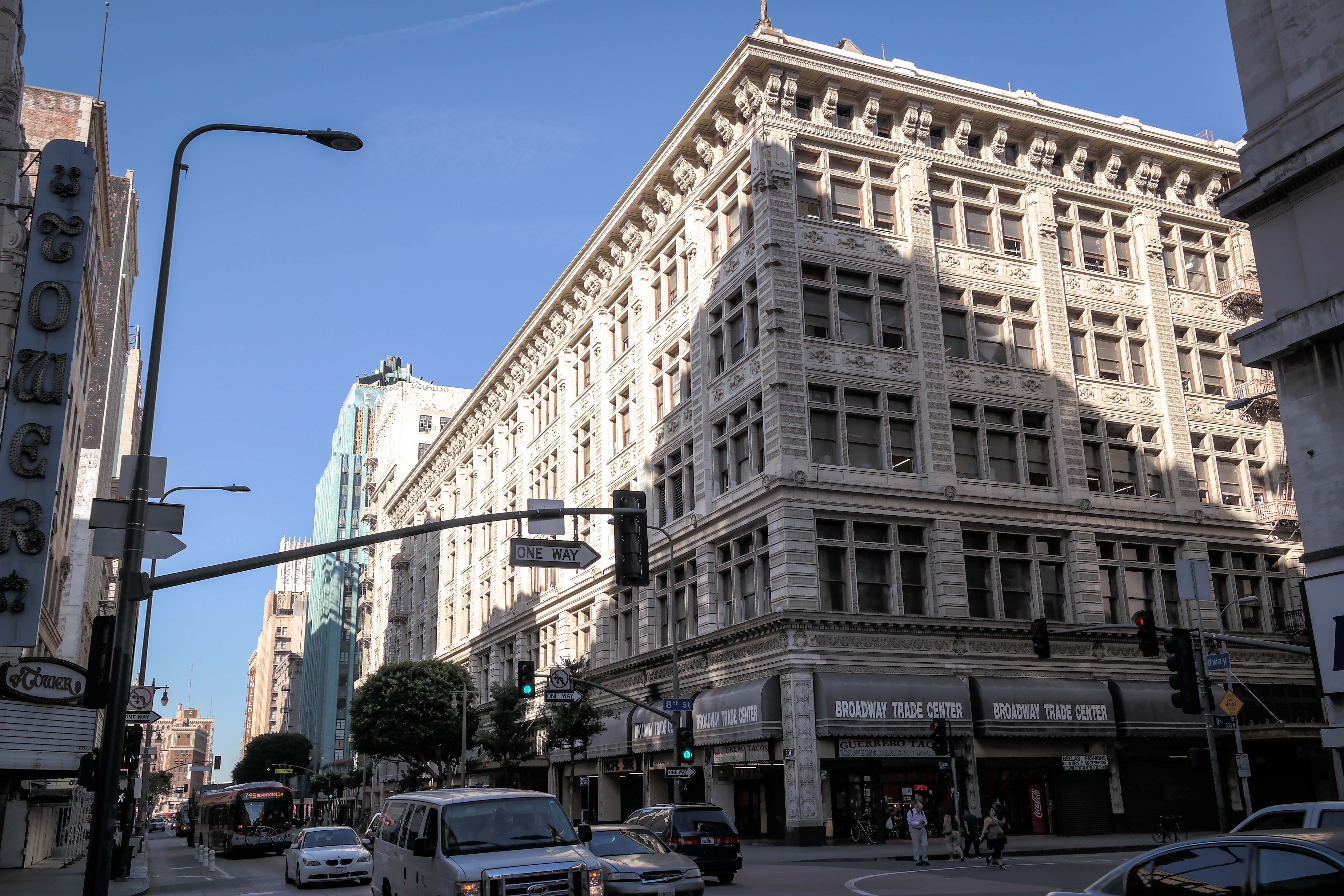 The 1906 May Department Store, originally Hamburger's Department Store, in the Broadway Theater and Commercial District of Los Angeles